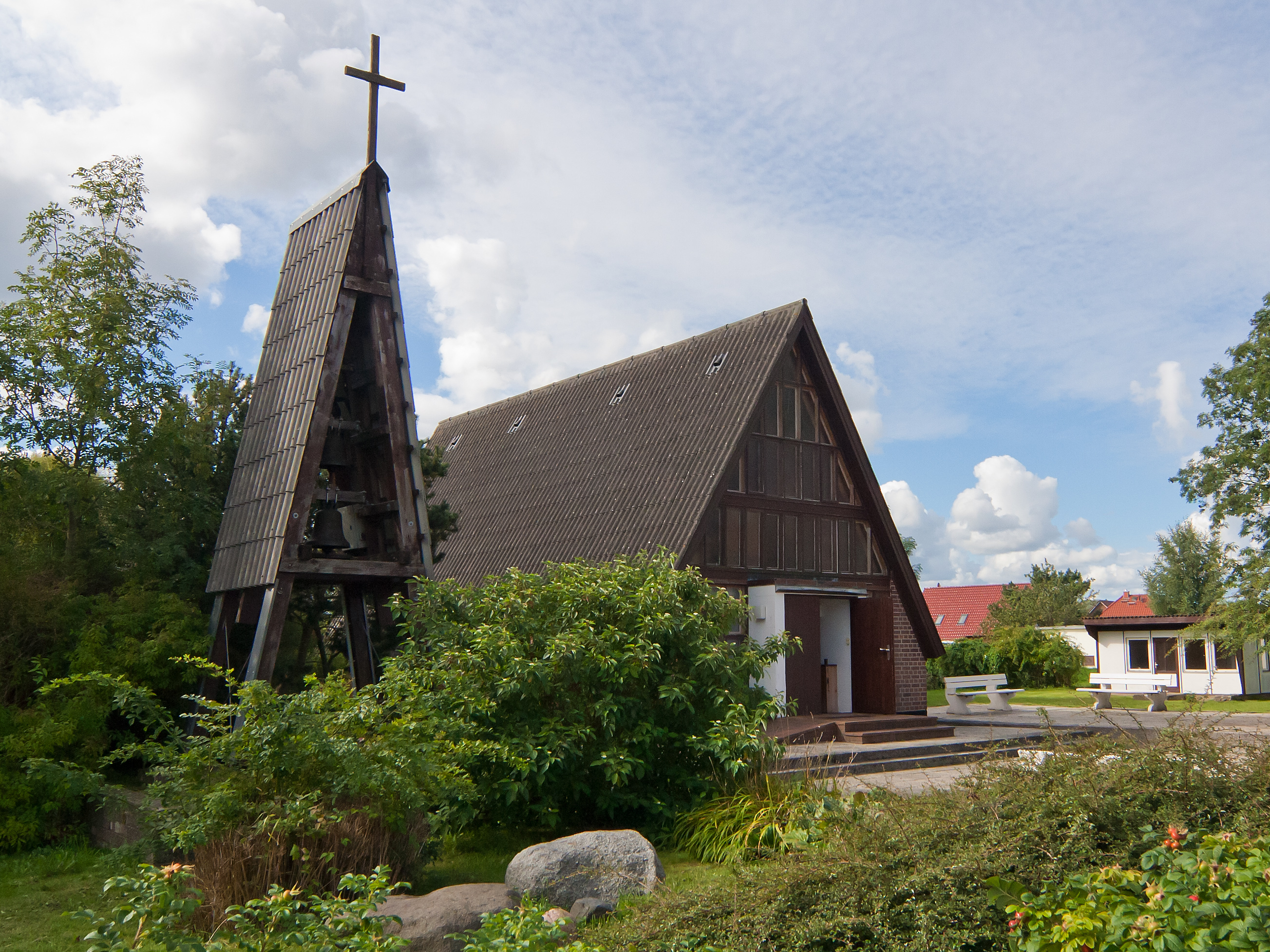 Glowe, church "St. Birgitta"